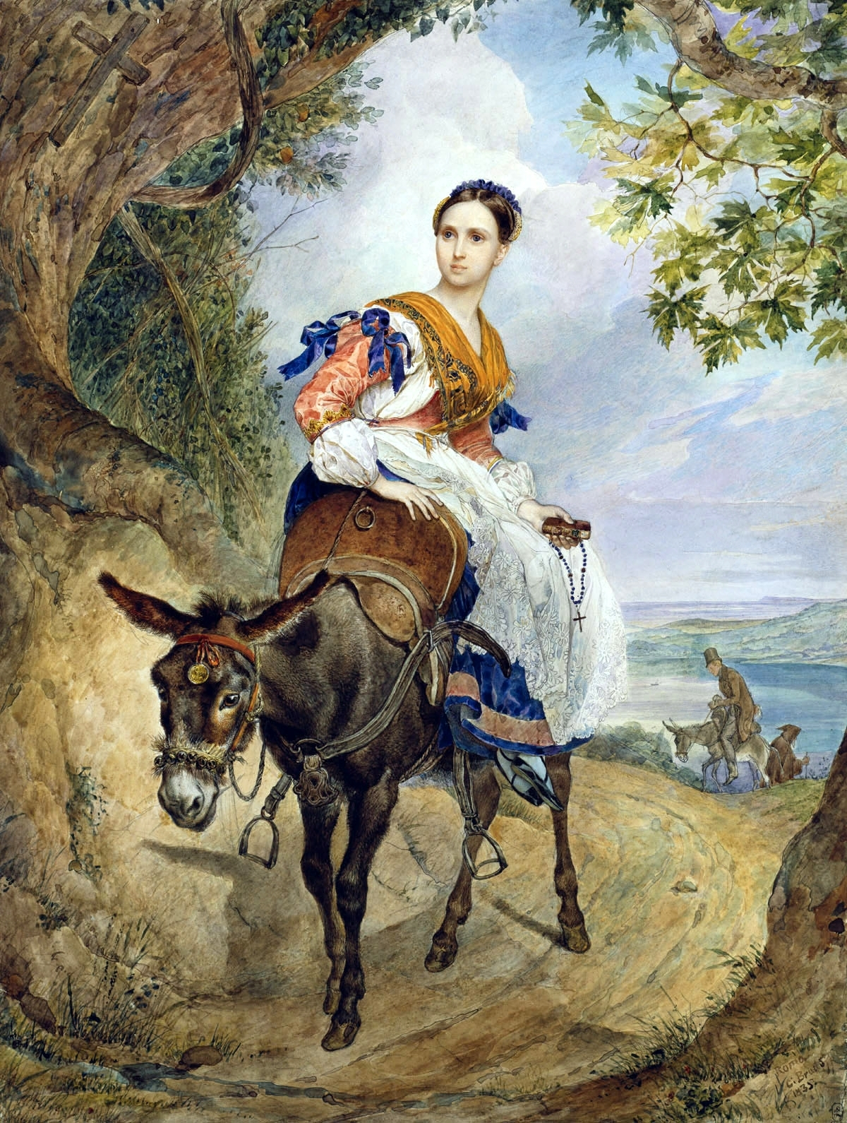 Commentarius. Olga Pavlovna Fernsen (1808-1837), née Stroganov, daughter of Sofia Vladimirovna Golitsyn and Pavel Alexandrovich Stroganov, granddaughter of the Princess H. P. Golitsyn)